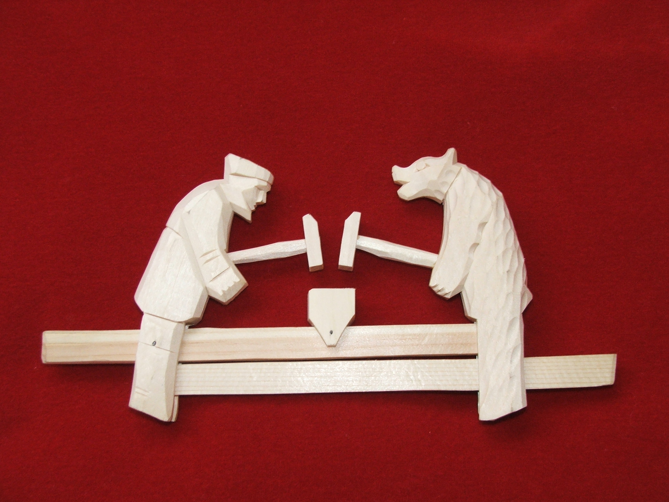 Traditional Russian wooden toy "Smith and Bear"